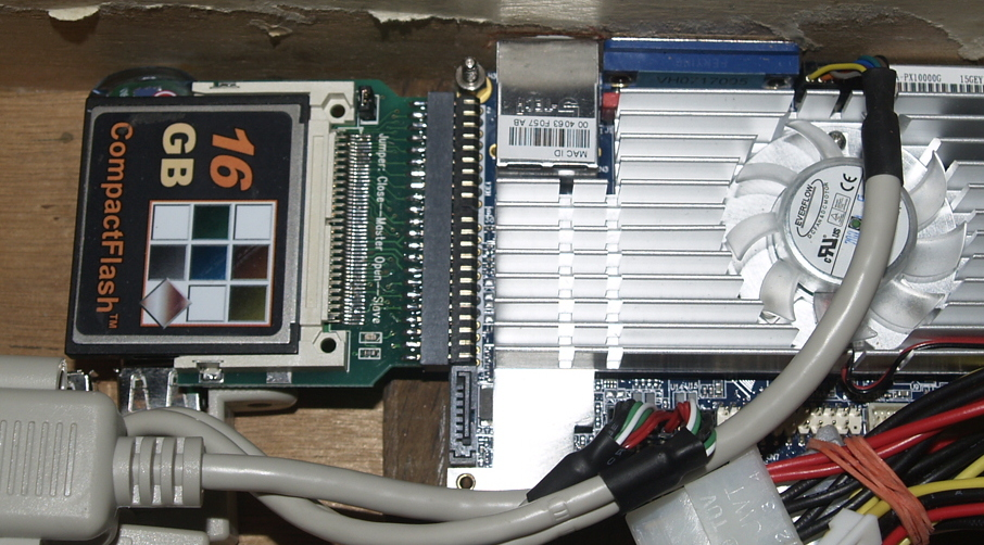 Compactflash card installed in IDE reader. Pico-ITX board